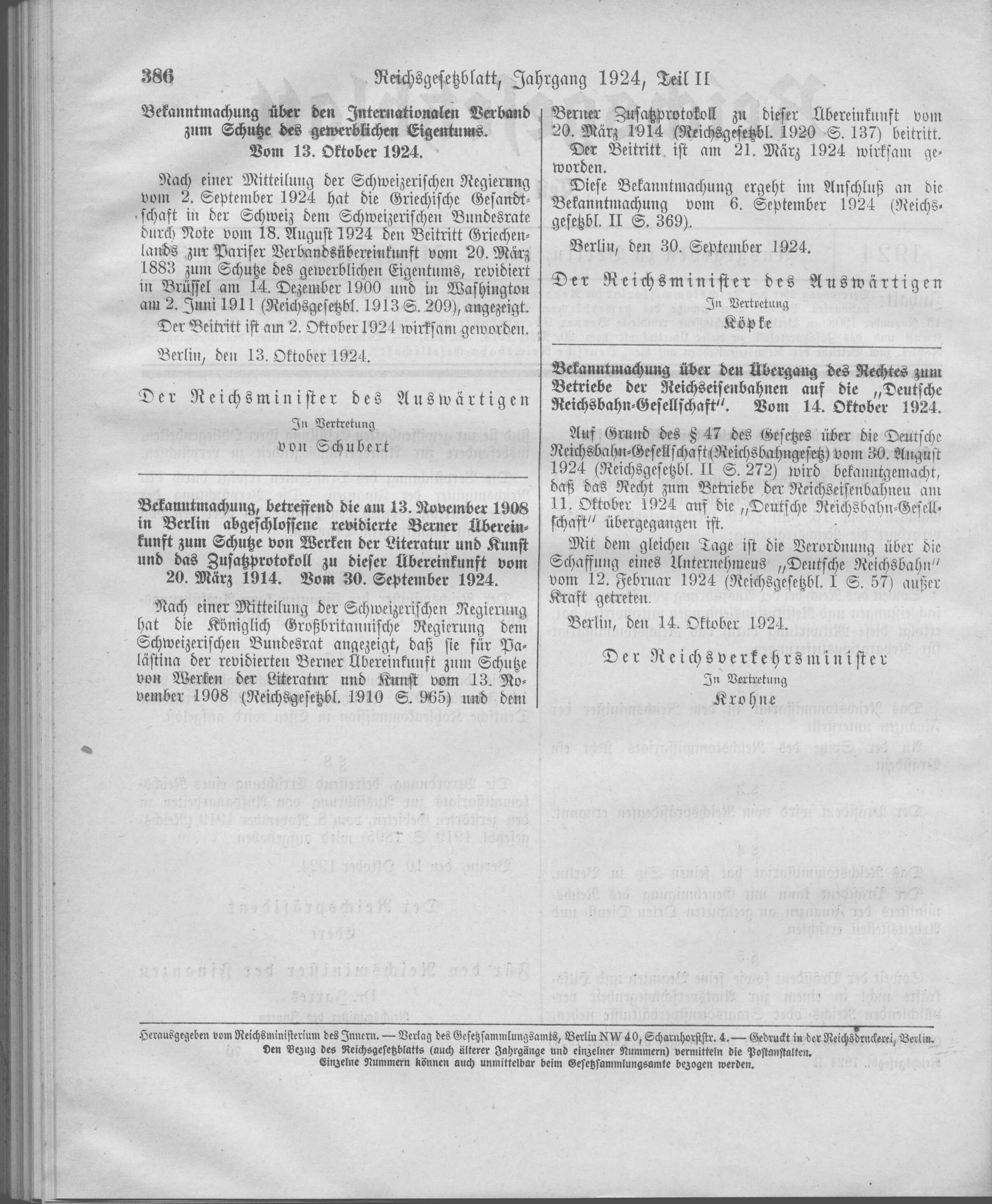 Scan from the Imperial Law Gazette of Germany, 1924, part 2